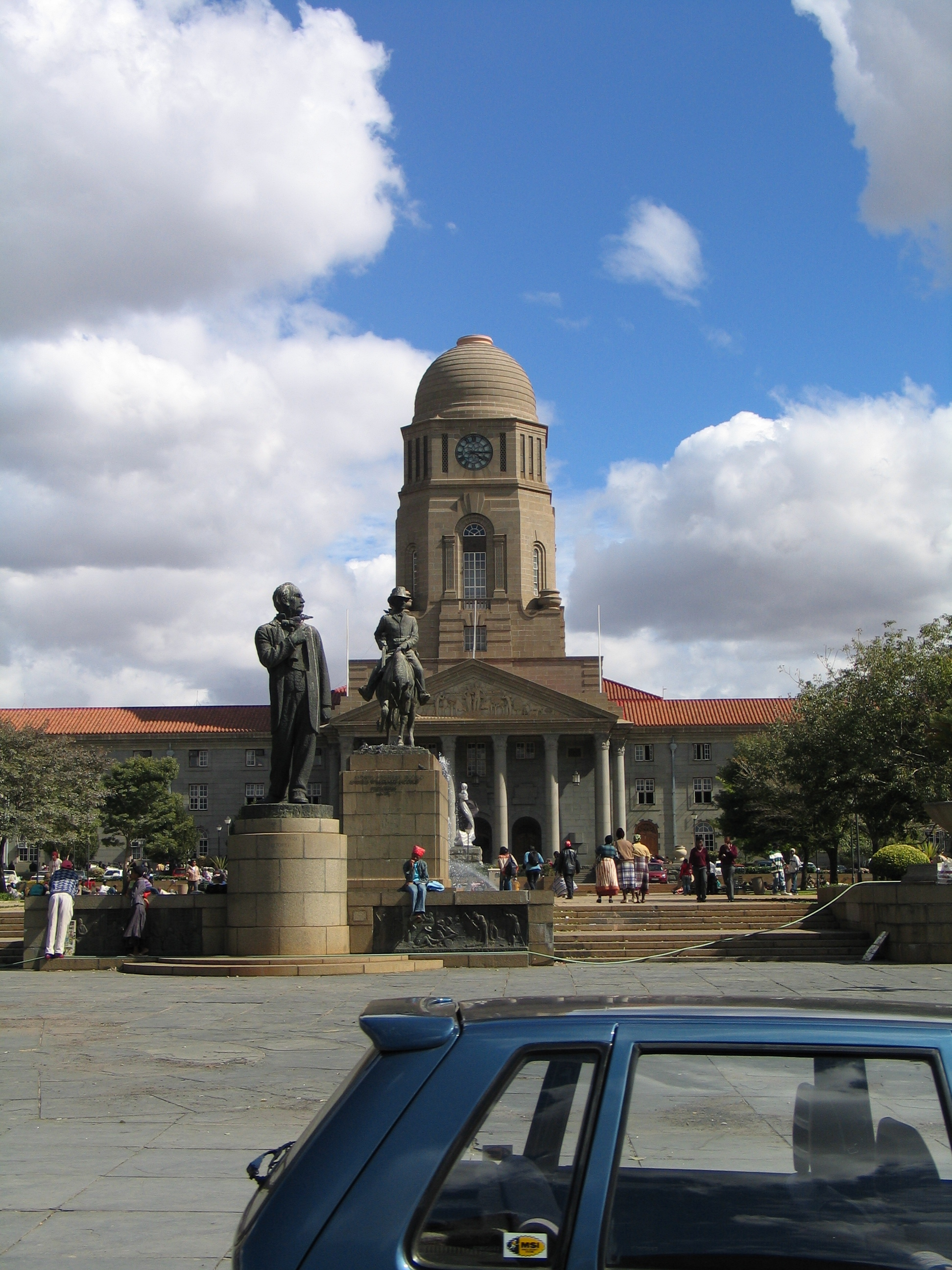 The city hall of Pretoria, South Africa, with the statues of Marthinus W. Pretorius (standing) and Andries Pretorius (equestrian)